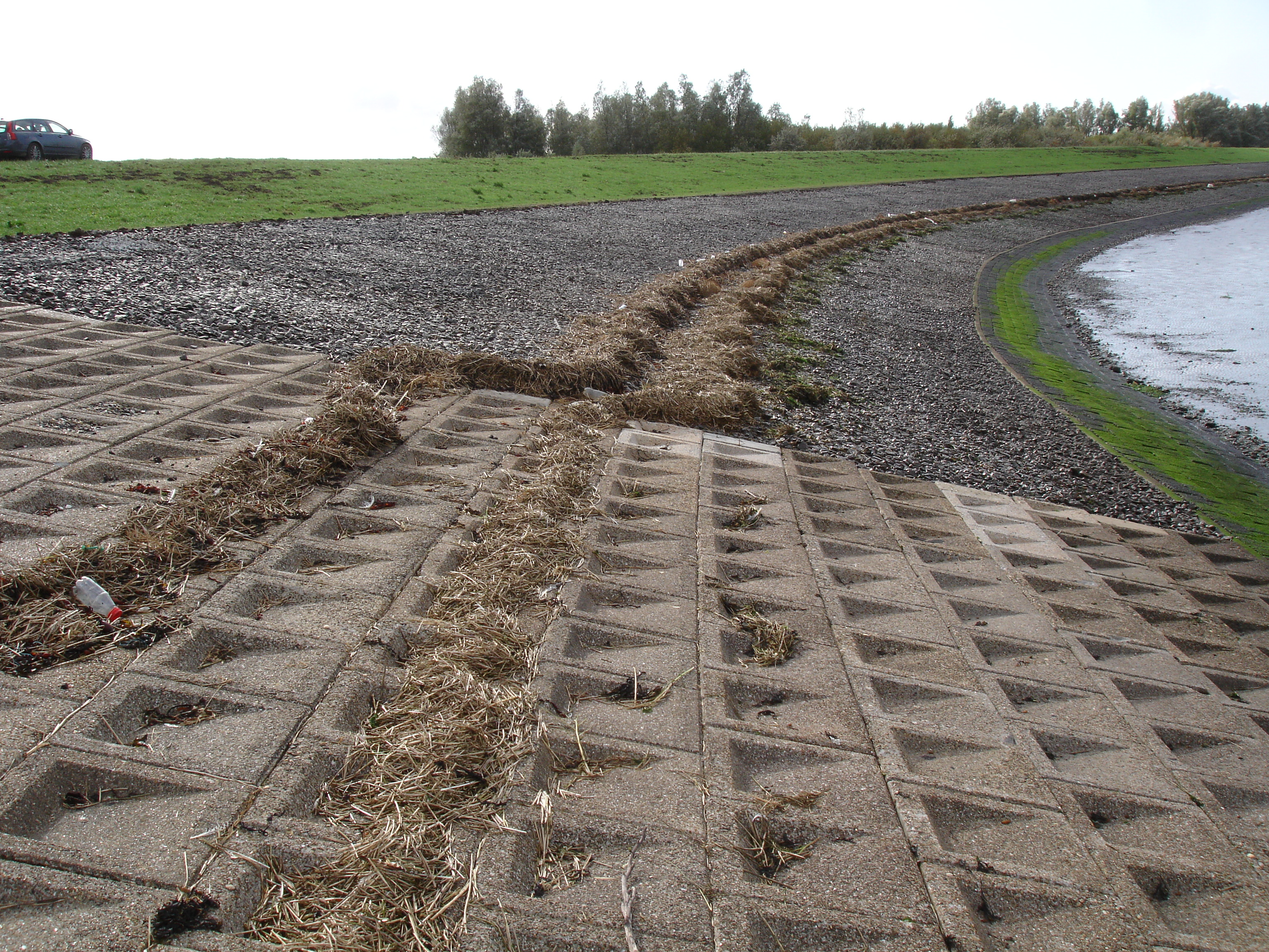 Two lines of flotsam, indicating the run-up of two subsequent storms (on 12 October 2009). In front there is a rather closed slope with Haringman blocks. On the back there is a slope with Elastocoast, showing much less run up. Wave height was approx. 0,5 m; Run up on Elastocoast 0.80 and 0.85 m, on the Haringman blocks 1.05 and 1.10 m